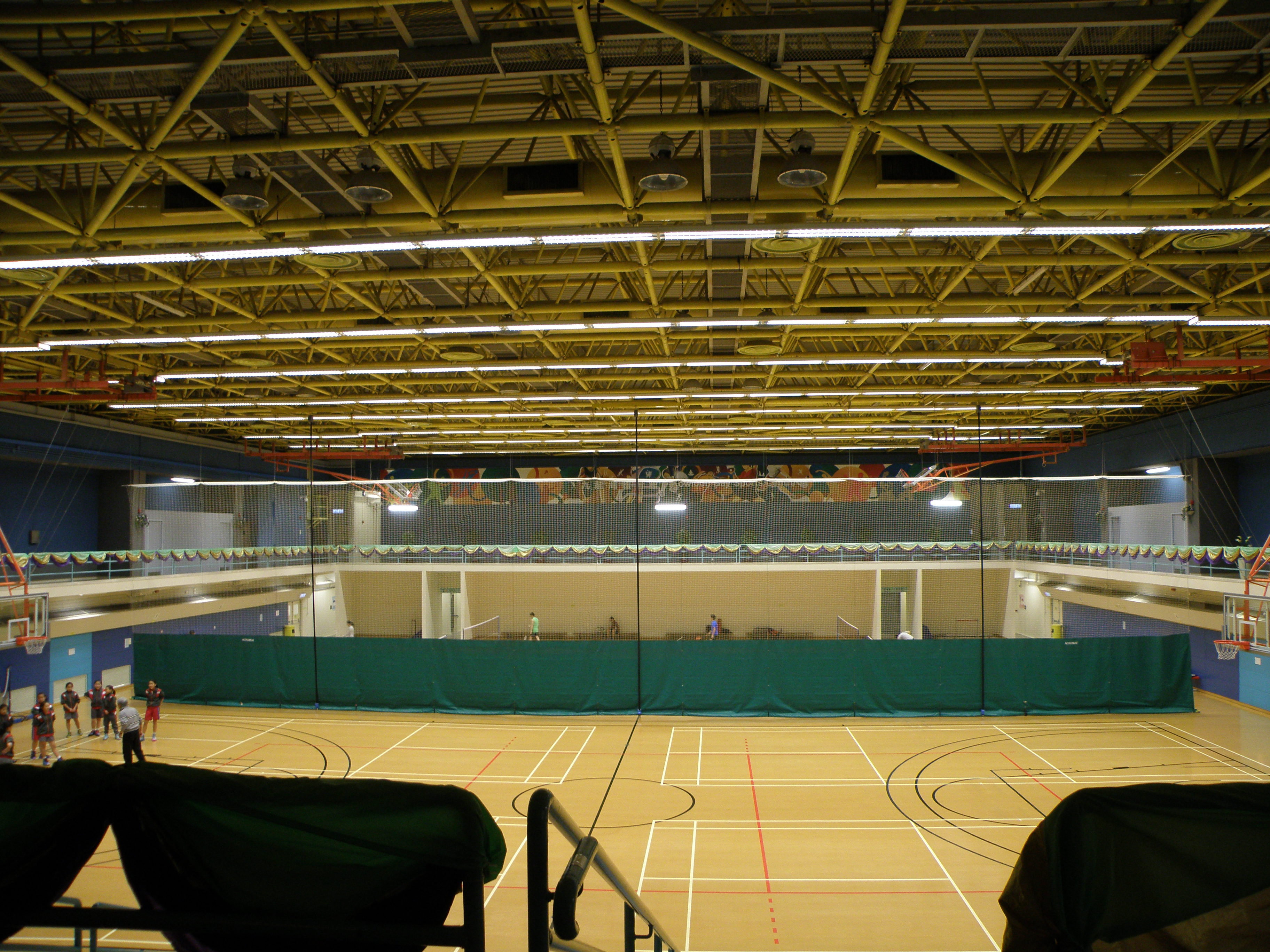 Sports Centre in Kowloon Bay, Hong Kong.